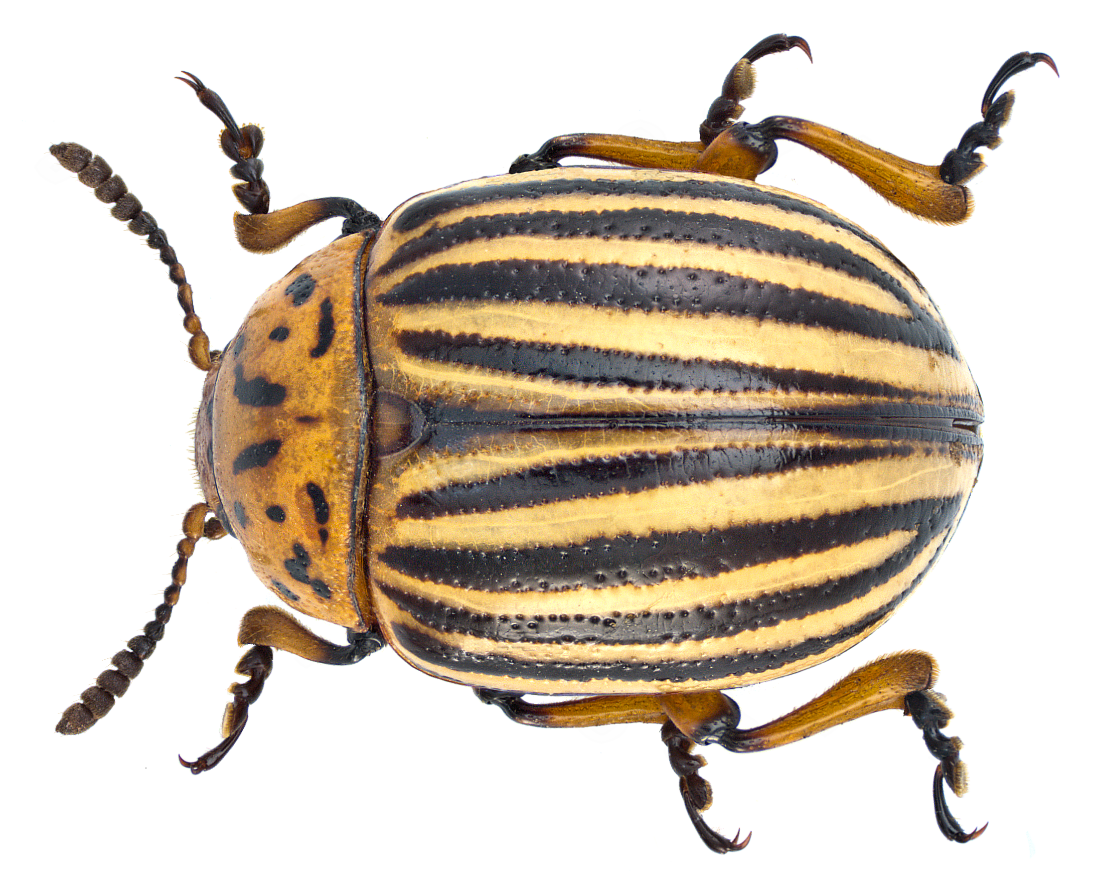 Family: Chrysomelidae Size: 10,5 mm Origin: introduced from America to Europe Ecology: lives and develops in Europe at the potato plant Location: Germany, Bavaria, Upper Franconia, Kulmbach leg.det. U.Schmidt, 4.VIII.1972 Photo: U.Schmidt, 2014